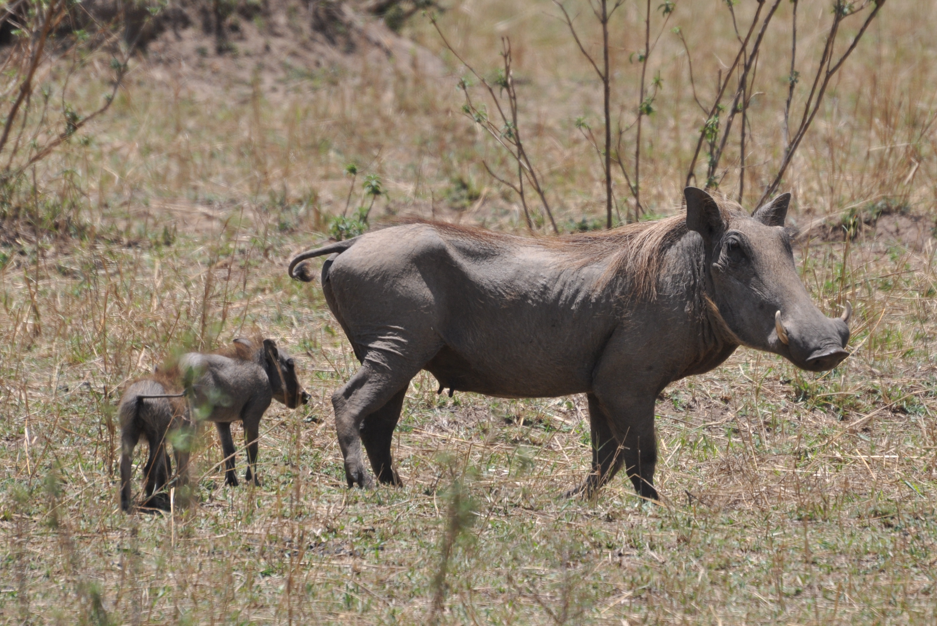 female warthog with young in the northern serengeti